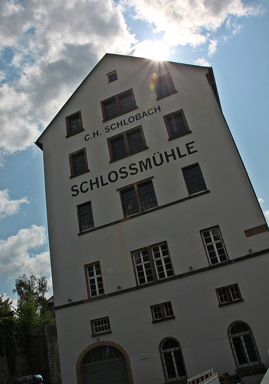 Rochlitz, "Schlossmühle", old watermill on the Mulde river.